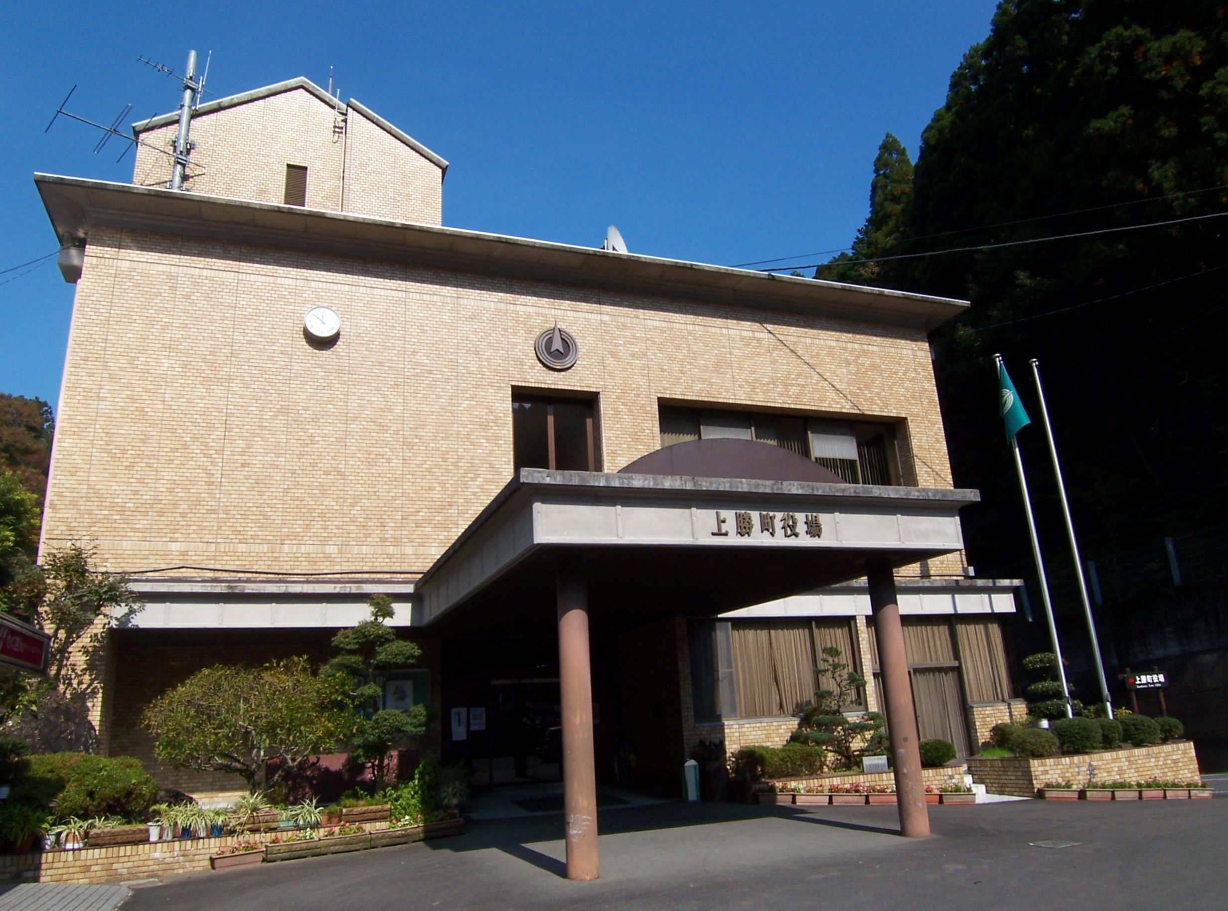 Kamikatsu town office 上勝町役場